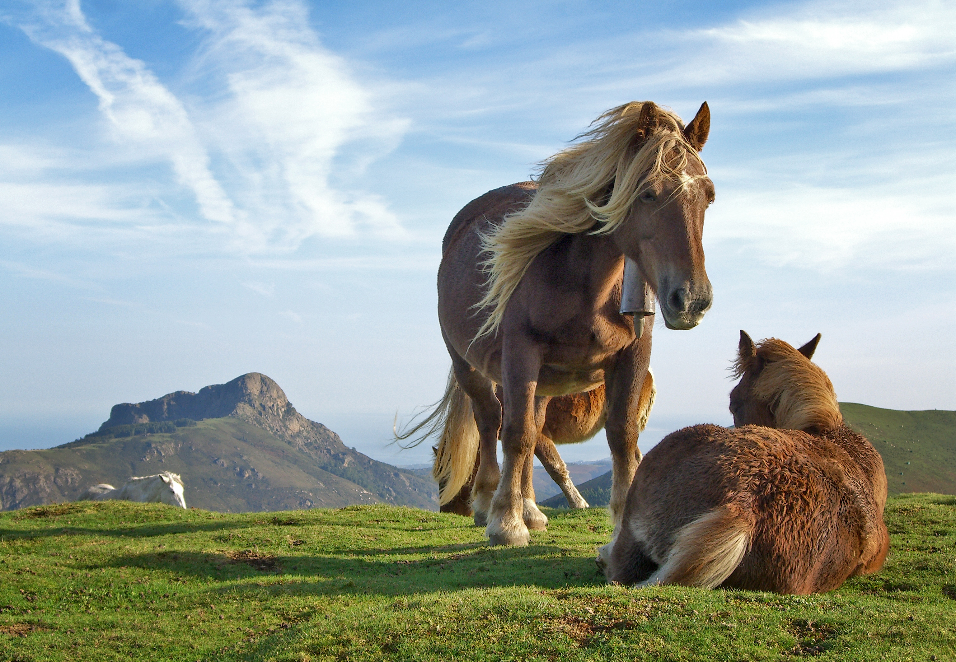 Horses on Bianditz mountain. Behind them Aiako Harria mountain can be seen.